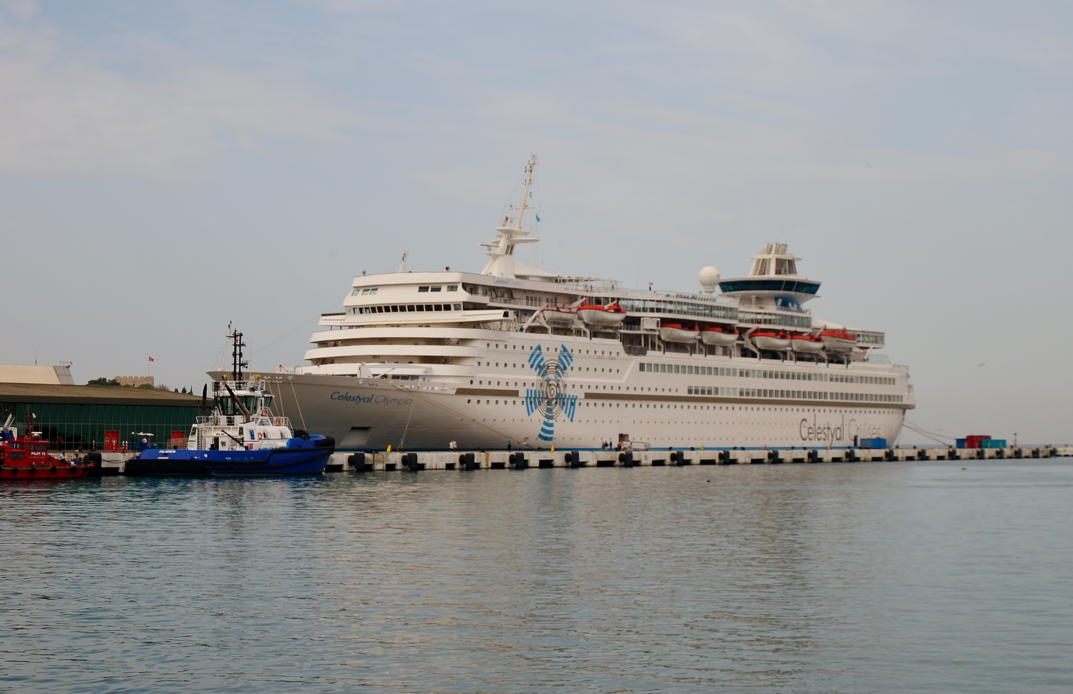 Cruise ship in Kuşadası, Aydın